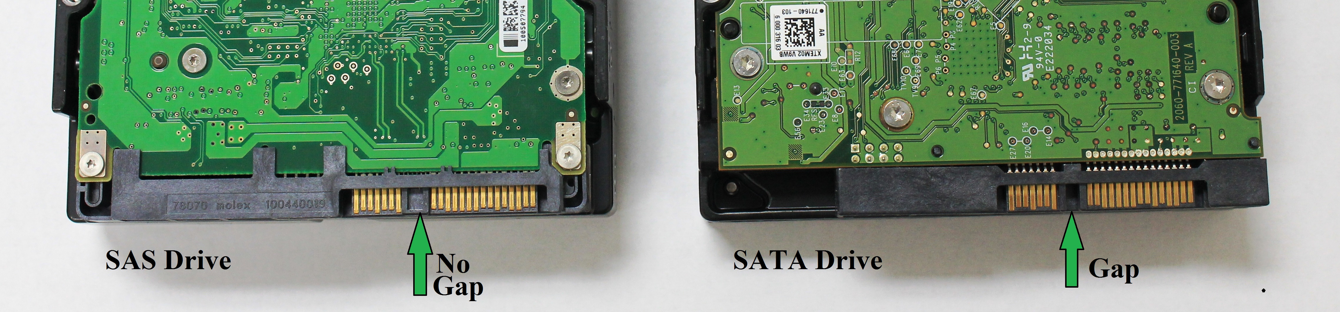 Shows difference between SAS and SATA connectors